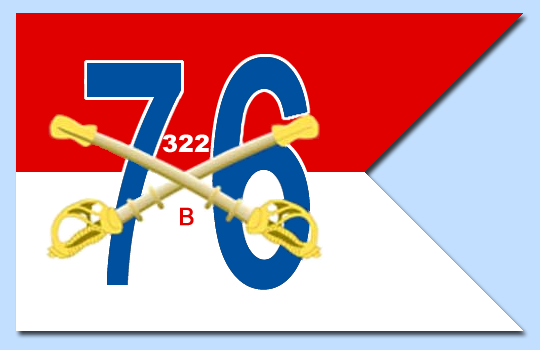 USS Ronald Reagan (CVN-76) battle flag.